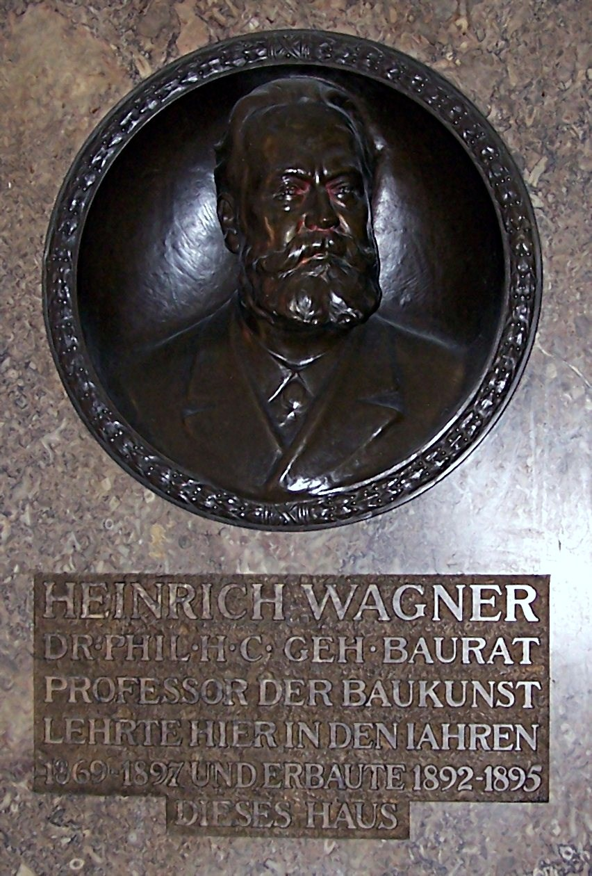 Relief of Heinrich Wagner (1834-1897) in the old main building of the Technische Universität Darmstadt